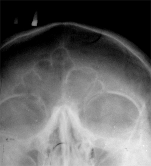 x-ray of frontal bone sinuses